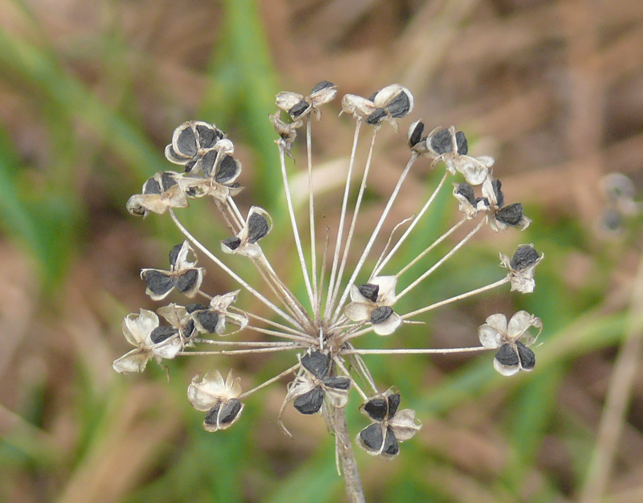 Seeds of garlic chive, photo taken at a Hong Kong farm.